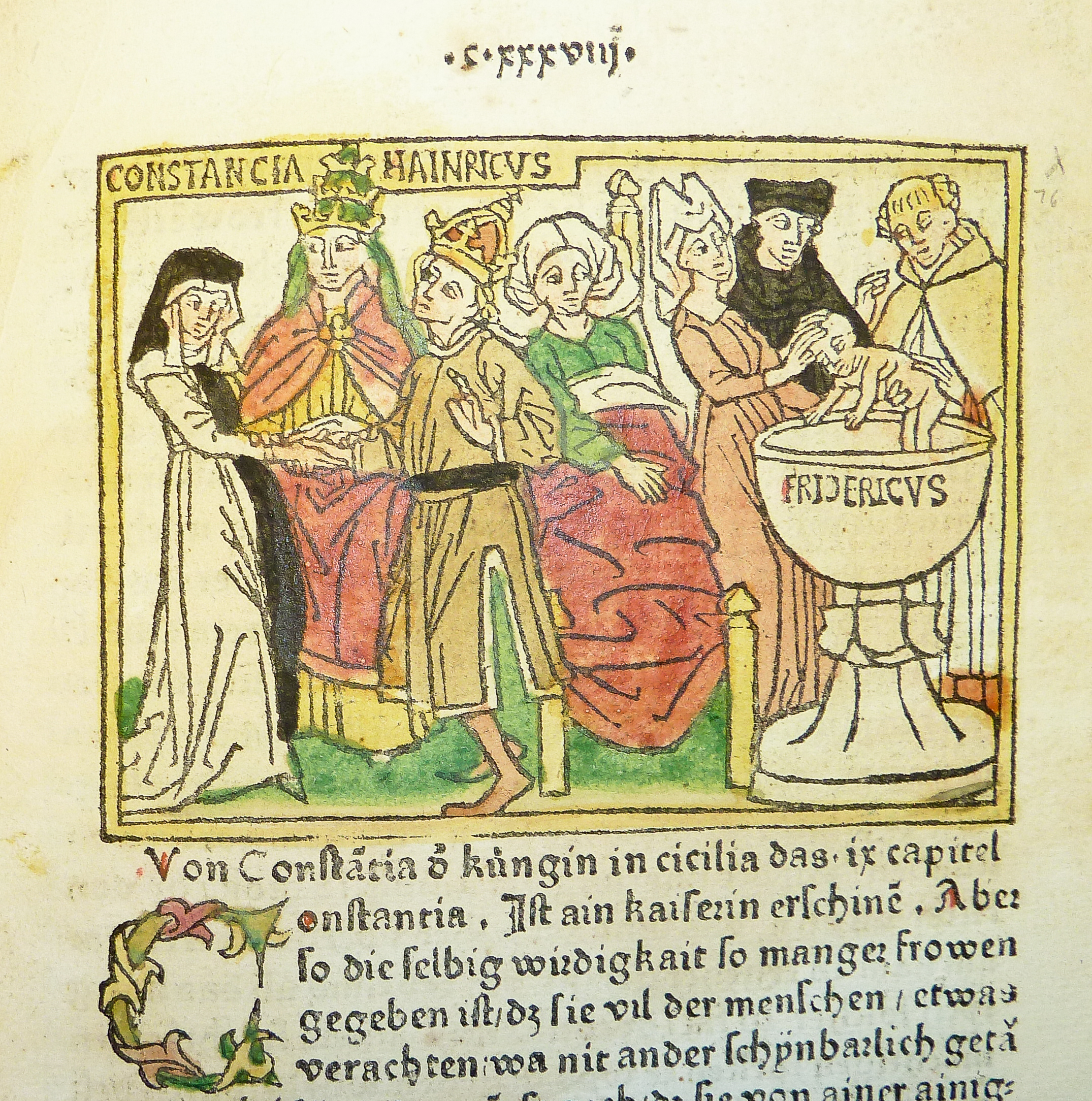 Woodcut illustration (leaf [p]8r, f. cxxxviij) of Constance of Sicily, her husband HRE Henry VI and her son HRE Frederick II, hand-colored in red, green, yellow and black, from an incunable German translation by Heinrich Steinhöwel of Giovanni Boccaccio's De mulieribus claris, printed by Johannes Zainer at Ulm ca. 1474 (cf. ISTC ib00720000). One of 76 woodcut illustrations (1 on leaf [e]8v dated 1473), each 80 x 110 mm., depicting scenes from the life of the women chronicled (for a full list of subjects, cf. W.L. Schreiber, Handbuch der Holz- und Metallschnitte des XV. Jahrhunderts (Nendeln: Kraus Reprints, 1969), no. 3506). "Pour la première moitie le nom se trouve inscrit à côte de la tête de chaque femme, pour le reste il es ajouté entre les deux réglettes. Il n'y en a que trois, qui n'ont qu'un seul trait carré."--Schreiber. Established form: Zainer, Johannes, ‡d d. 1541?. Established form: Constance, ǂc Empress, consort of Henry VI, Holy Roman Emperor, ǂd 1154-1198. Established form: Henry ǂb VI, ǂc Holy Roman Emperor, ǂd 1165-1197. Established form: Frederick ǂb II, ǂc Holy Roman Emperor, ǂd 1194-1250. Penn Libraries call number: Inc B-720 All images from this book Penn Libraries catalog record